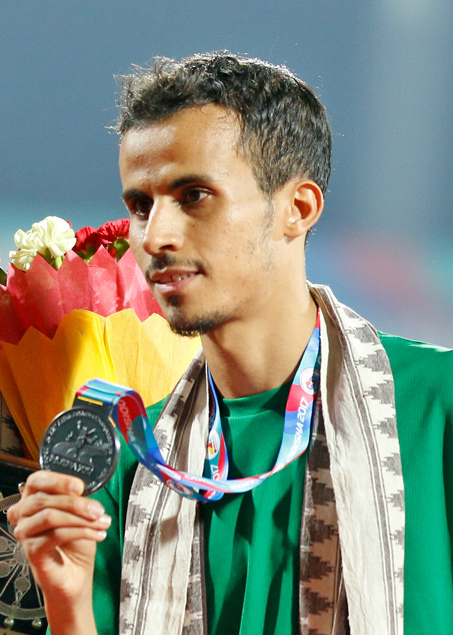 Athletes during 22nd Asian Athletics Championships in Bhubaneswar.